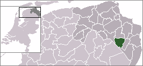 Locator map of Dutch municipalities in Groningen (LocatieVeendam.png)